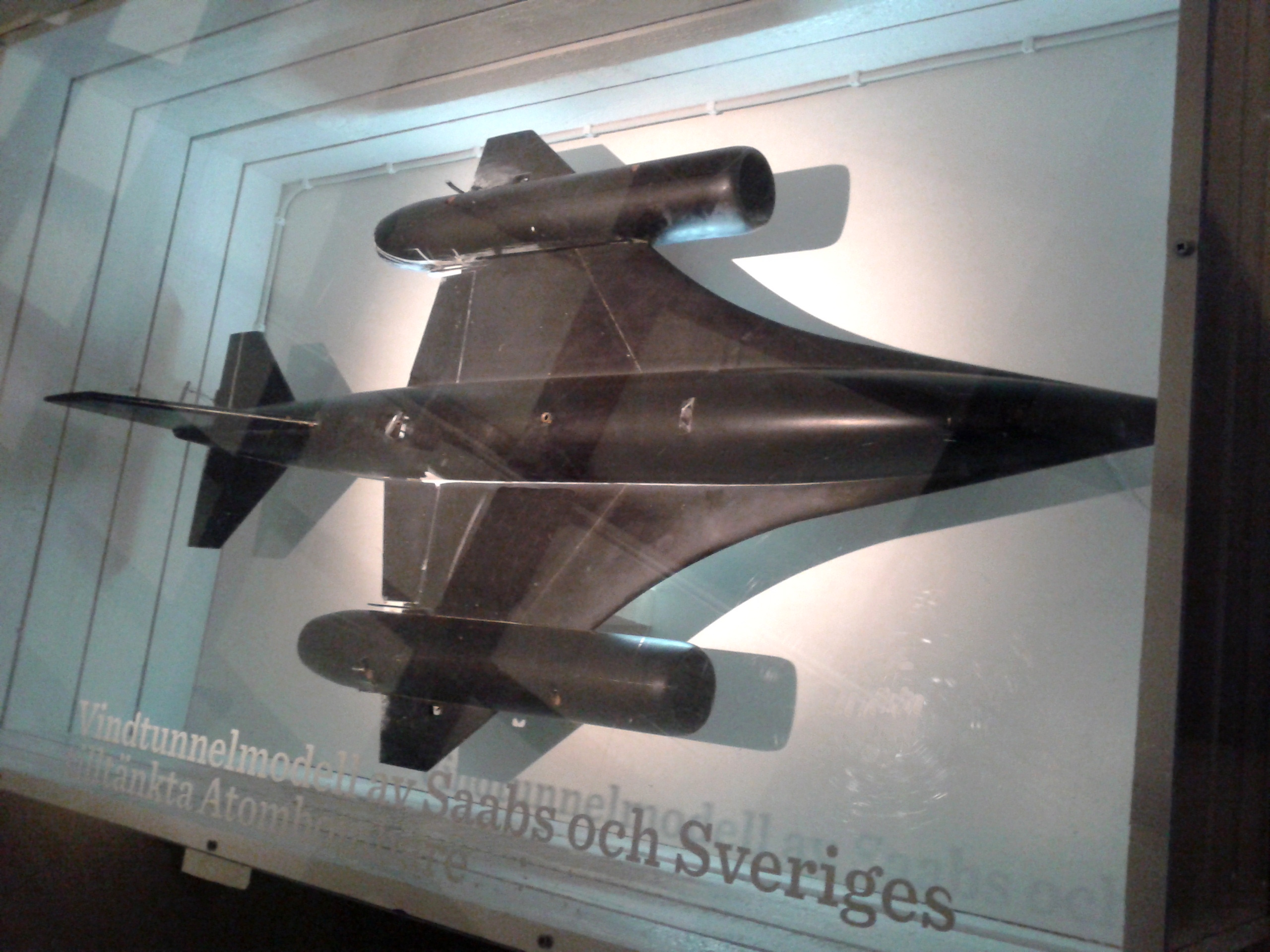 Wind tunnel model of the Saab 37 project draft named airplane 1300-71D.